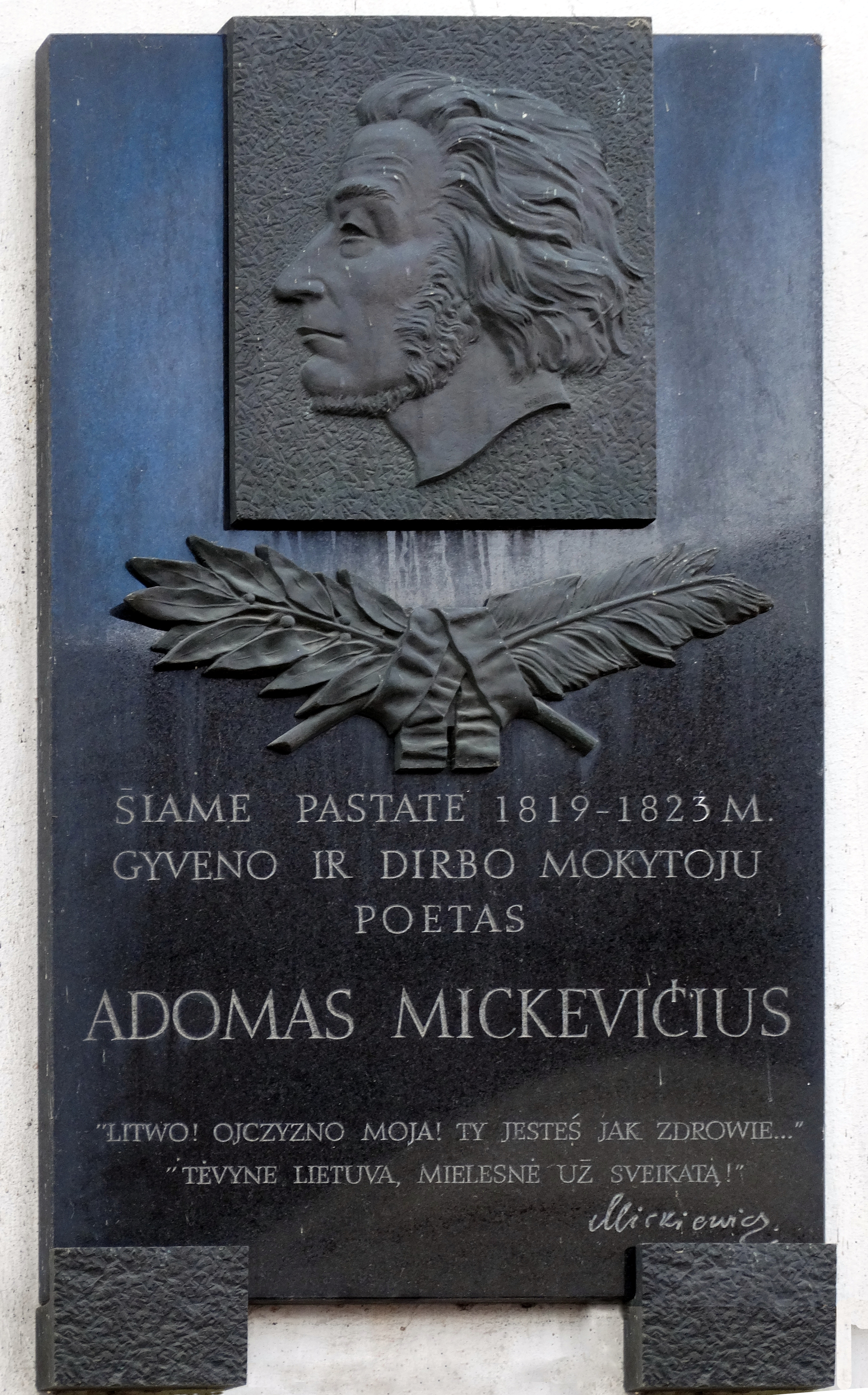 Memorial plaque to Adam Mickiewicz, Rotušės a., Kaunas, Lithuania